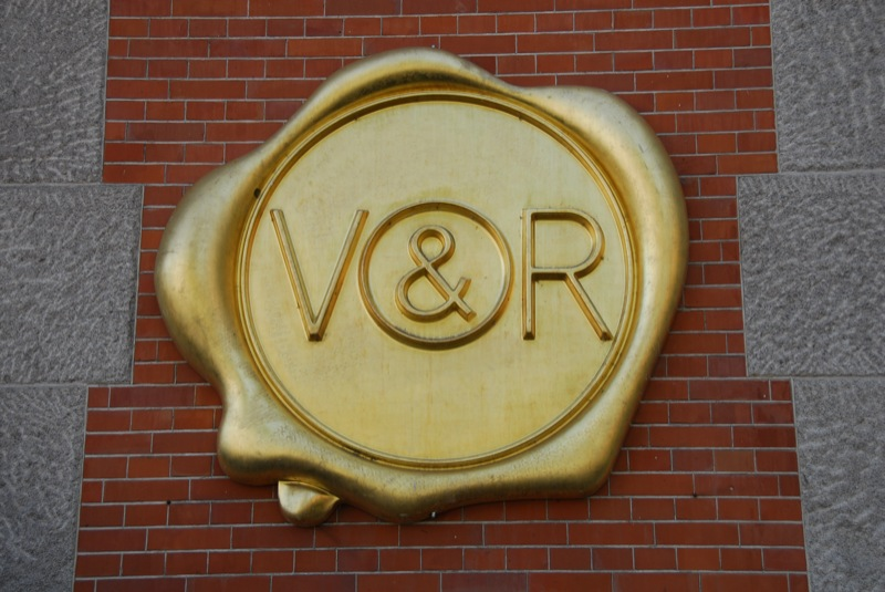 logo on the wall of central office